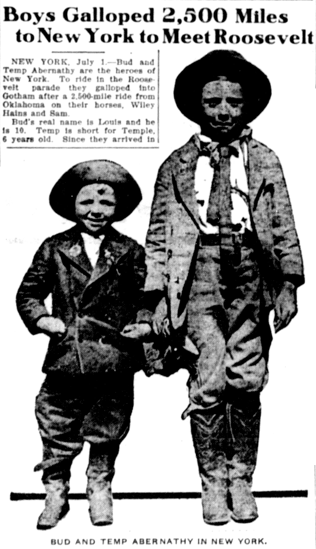 Louis Van "Bud" Abernathy (December 17, 1899 – March 6, 1979) and Temple Reeves "Temp" Abernathy (March 25, 1904 – December 10, 1986) were children from Oklahoma who without adult supervision took several cross-country trips. This is a newspaper article published after their 1910 trip.